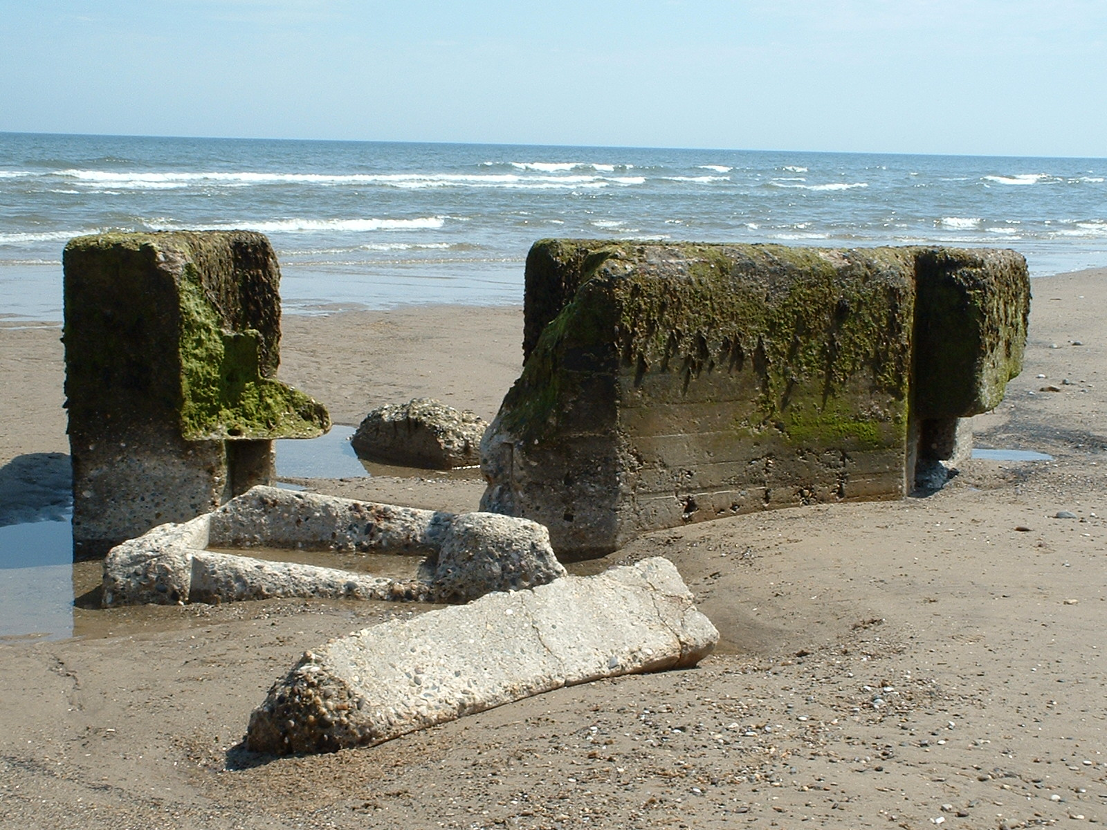 Pillbox - Type Eared, Speeton, OS reference xxxxx Toppled over and broken up as a result of coastal erosion. Easy access on beach. Photographed by Gaius Cornelius on 08-Jun-06. OS reference xxx